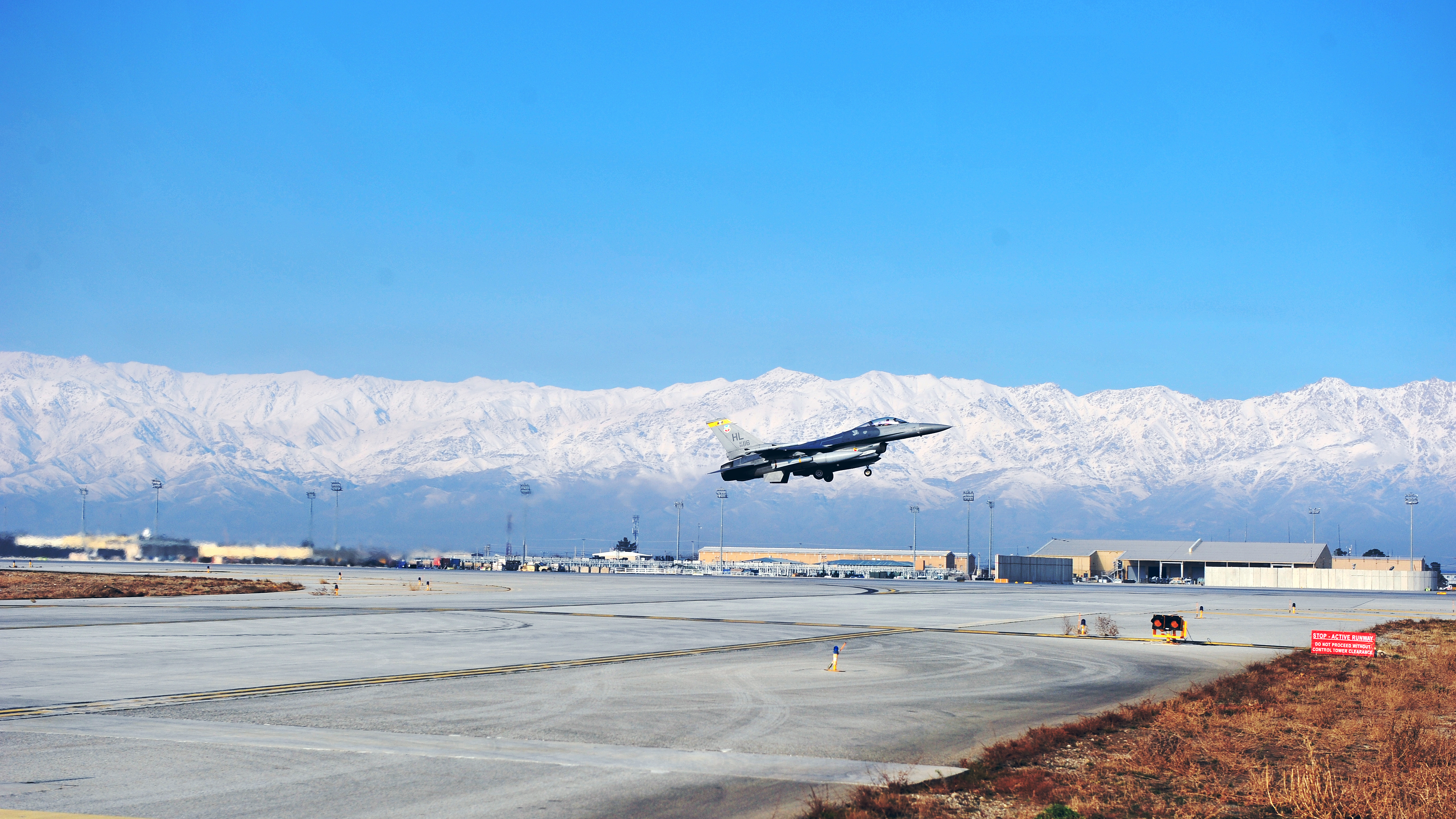 An F-16 Fighting Falcon assigned to the 4th Expeditionary Fighter Squadron from Hill Air Force Base, Utah, takes off at Bagram Air Field, Afghanistan, Jan. 23, 2015. The F-16 is a multi-role fighter aircraft that provides air superiority enabling freedom of movement for troops on the ground as well as close air support for troops engaged in combat. It provides a relatively low-cost, high-performance weapon system for the United States and allied nations. (U.S. Air Force photo by Staff Sgt. Whitney Amstutz/released)